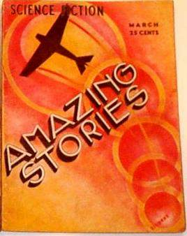 Cover of the pulp magazine Amazing Stories (March 1933).